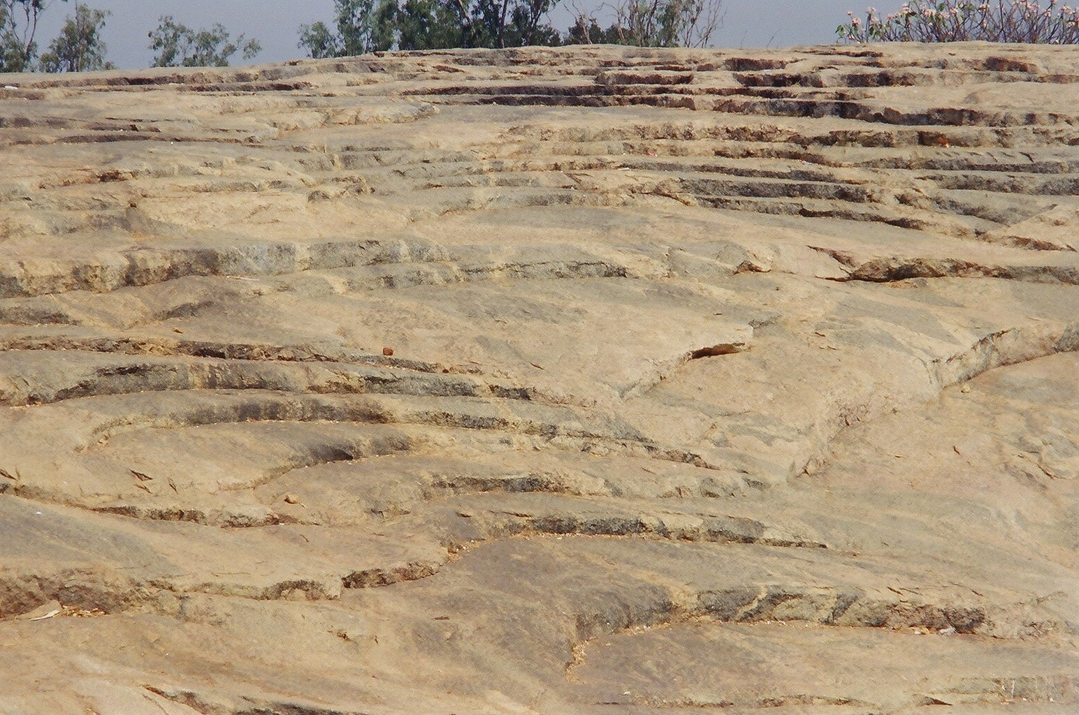 A View of the impressive and massive exposure of Peninsular Gneiss at Lalbagh in Bangalore